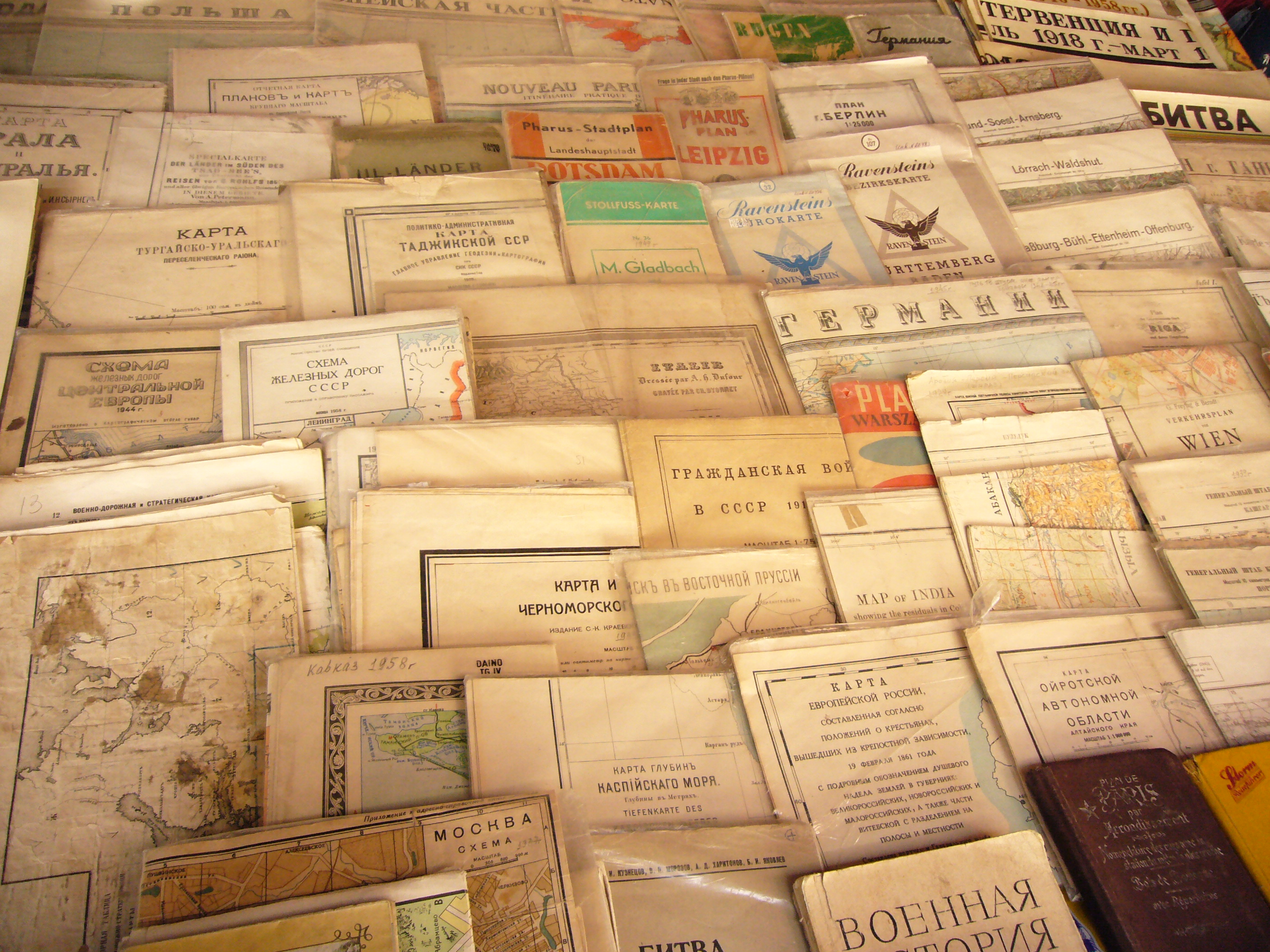 A collection of old maps on sale in the Vernisazh in Izmailovsky Park, Moscow, Russia